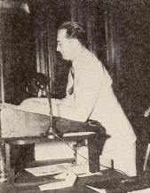 Samuel J. Briskin addressing the RKO Pictures sales conference in New York City in 1936. Other information for an explanation of the copyright for information regarding public domain